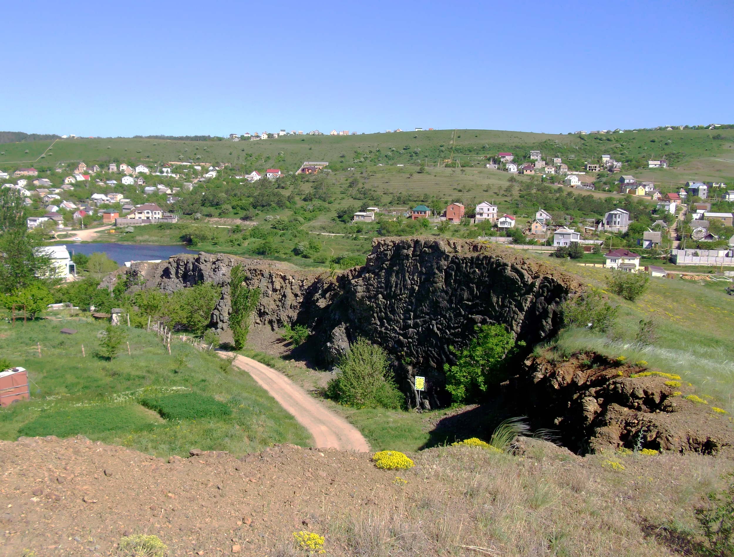 An outcrop of a fossilized stream of volcanic lava in the village of Petropavlovka (near Simferopol, Crimea, Ukraine)